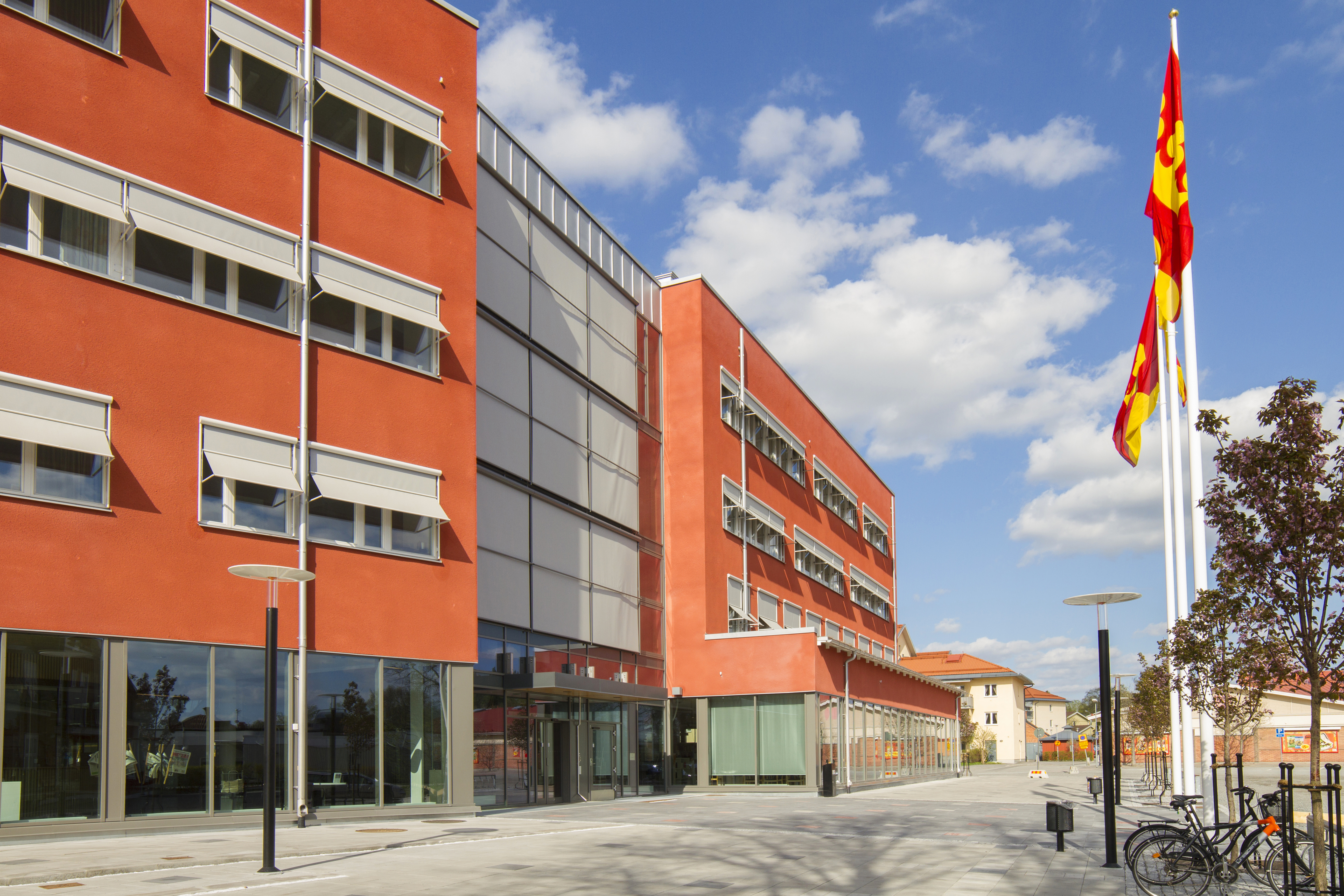 Head office of municipality of Knivsta